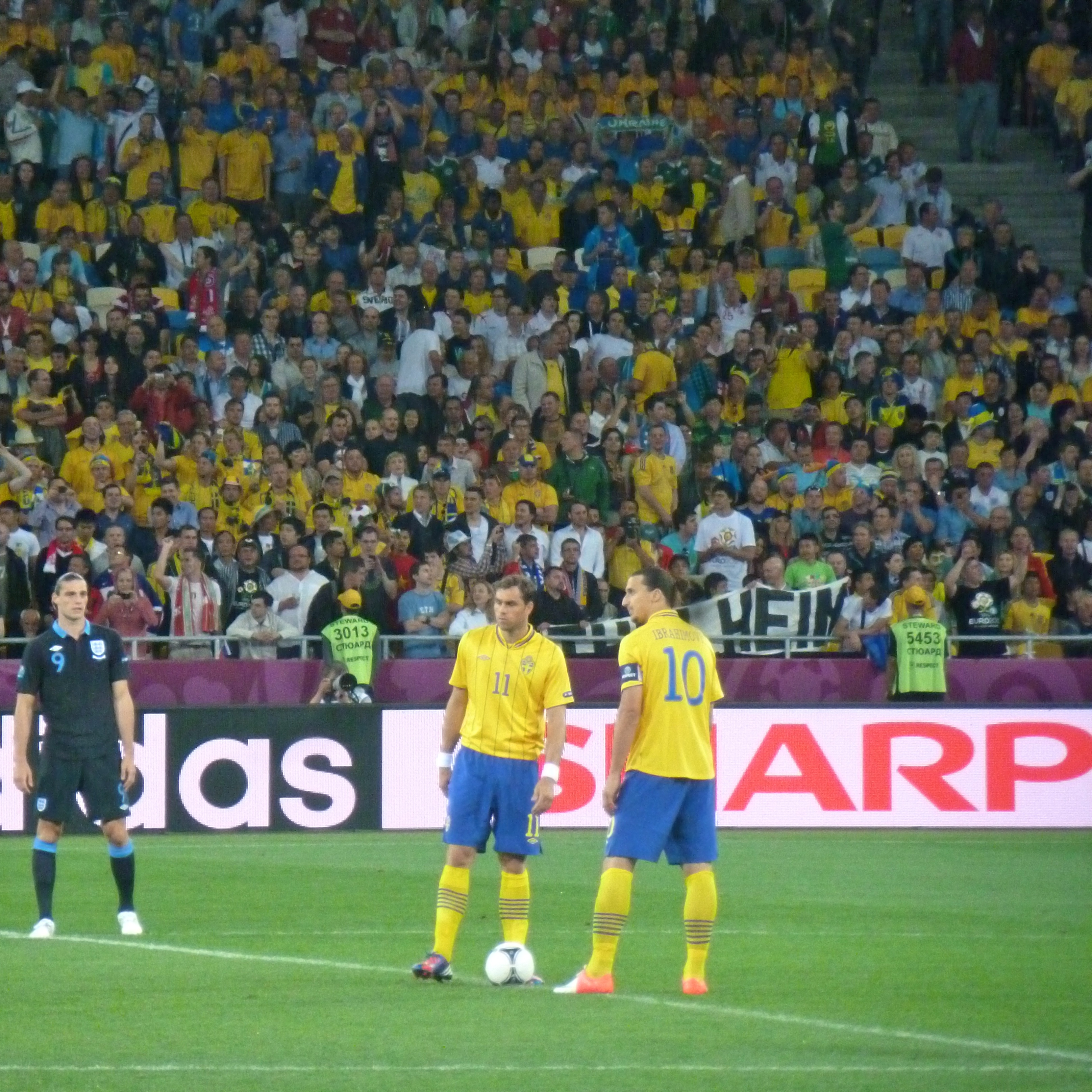 Sweden-England kick-off, UEFA Euro 2012.